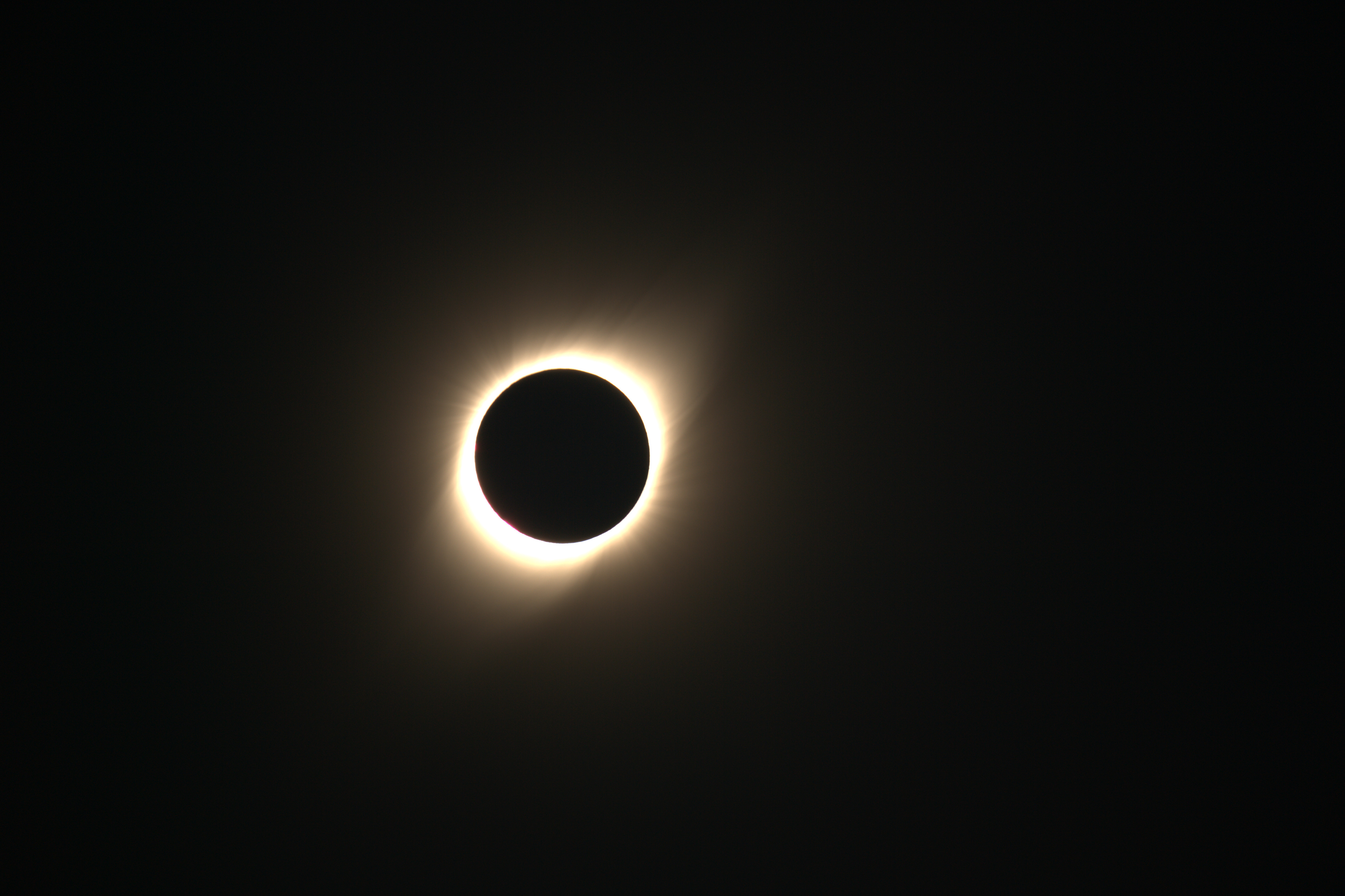 Eclipse in Chile July 2, 2019, near La Serena